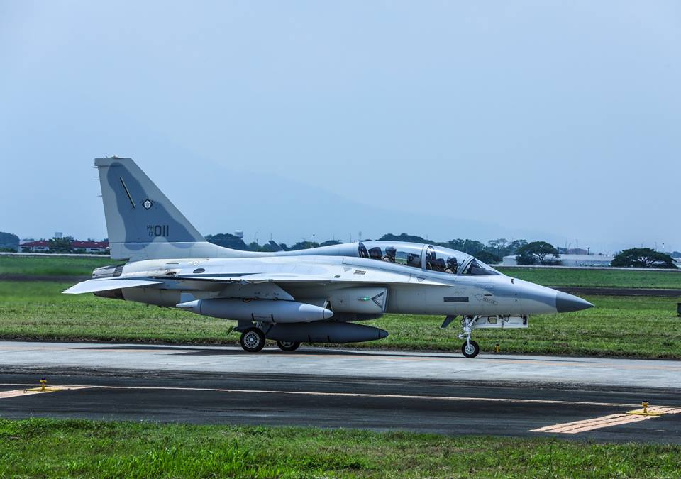 PAF's FA-50 with tail number 17-011 during arrival ceremonies from South Korea